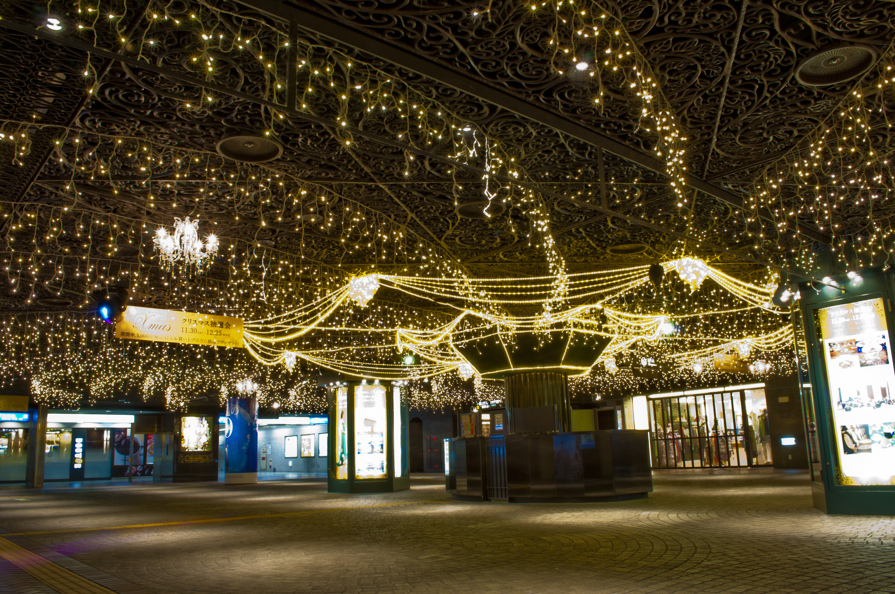 Christmas illumination at Tenjin Chikagai in Fukuoka, Japan